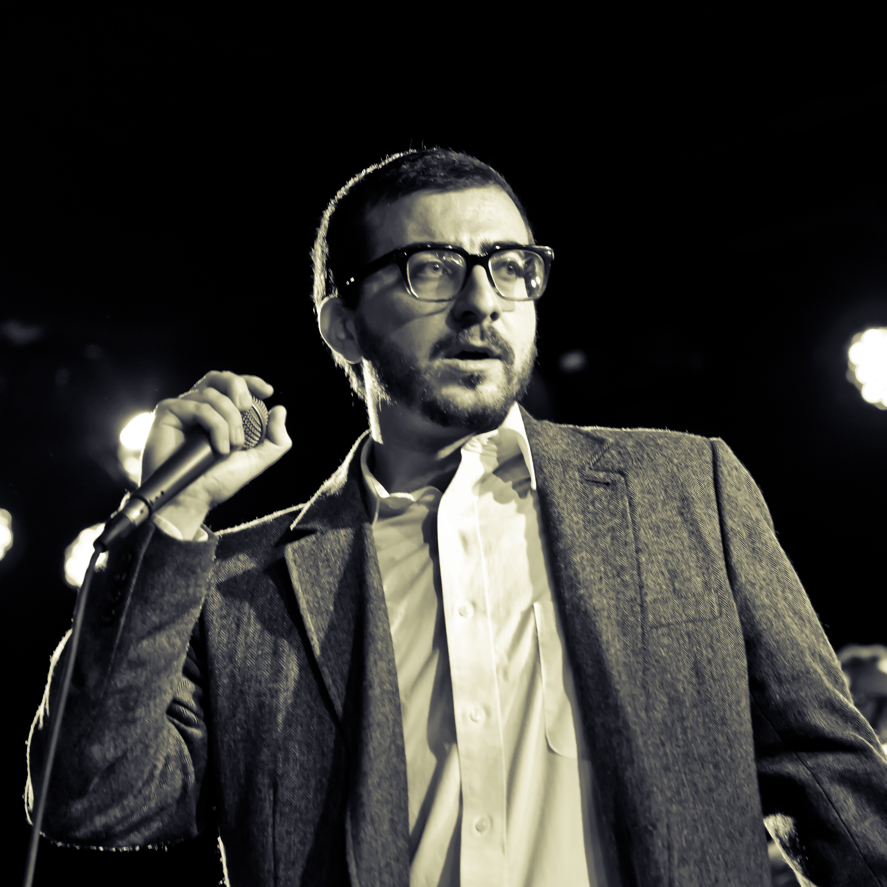 Soul Khan at Knitting Factory